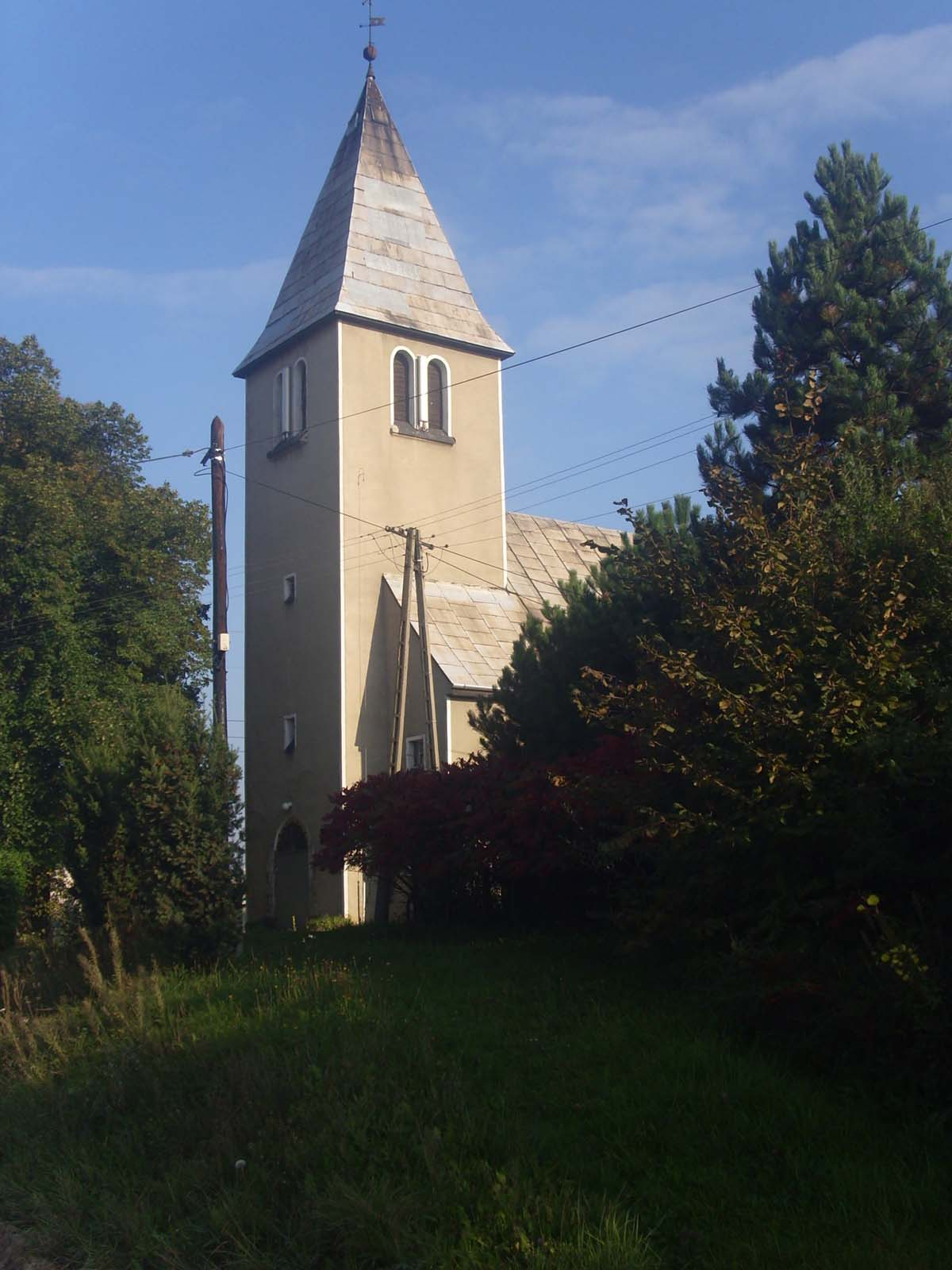 Old lutheran church in Jastrzębie-Zdrój